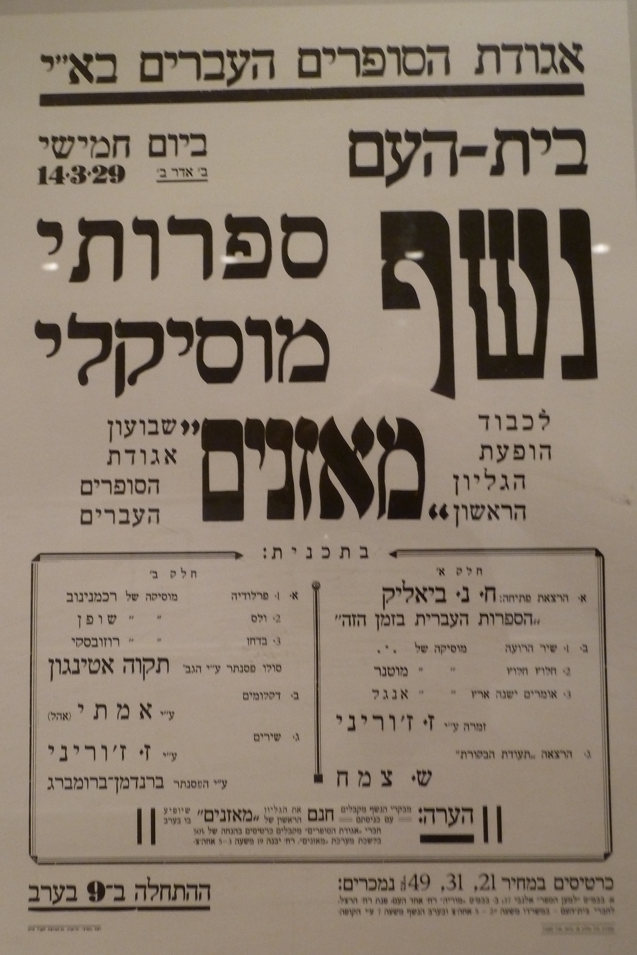 Tel Aviv Writer's Union ads from the 1920s and the 1930s. An exhibition at the Shalom Meir Tower